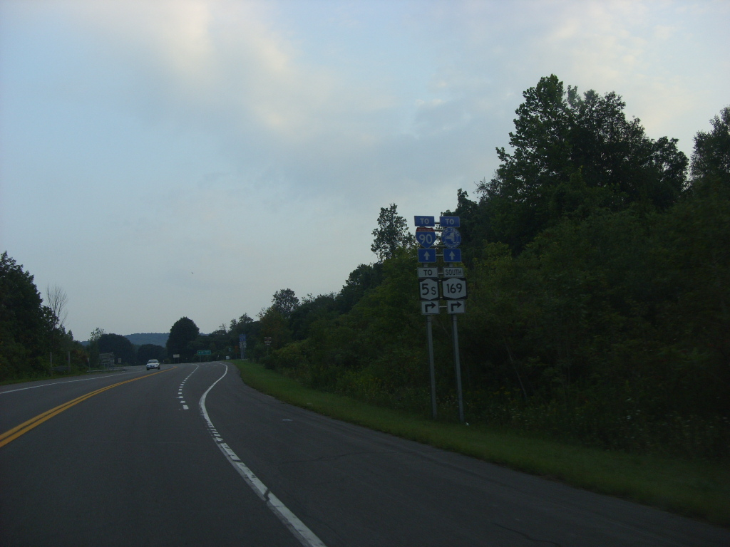 New York State Route 169 southbound at junction with New York State Thruway (I-90). To NY 5S.